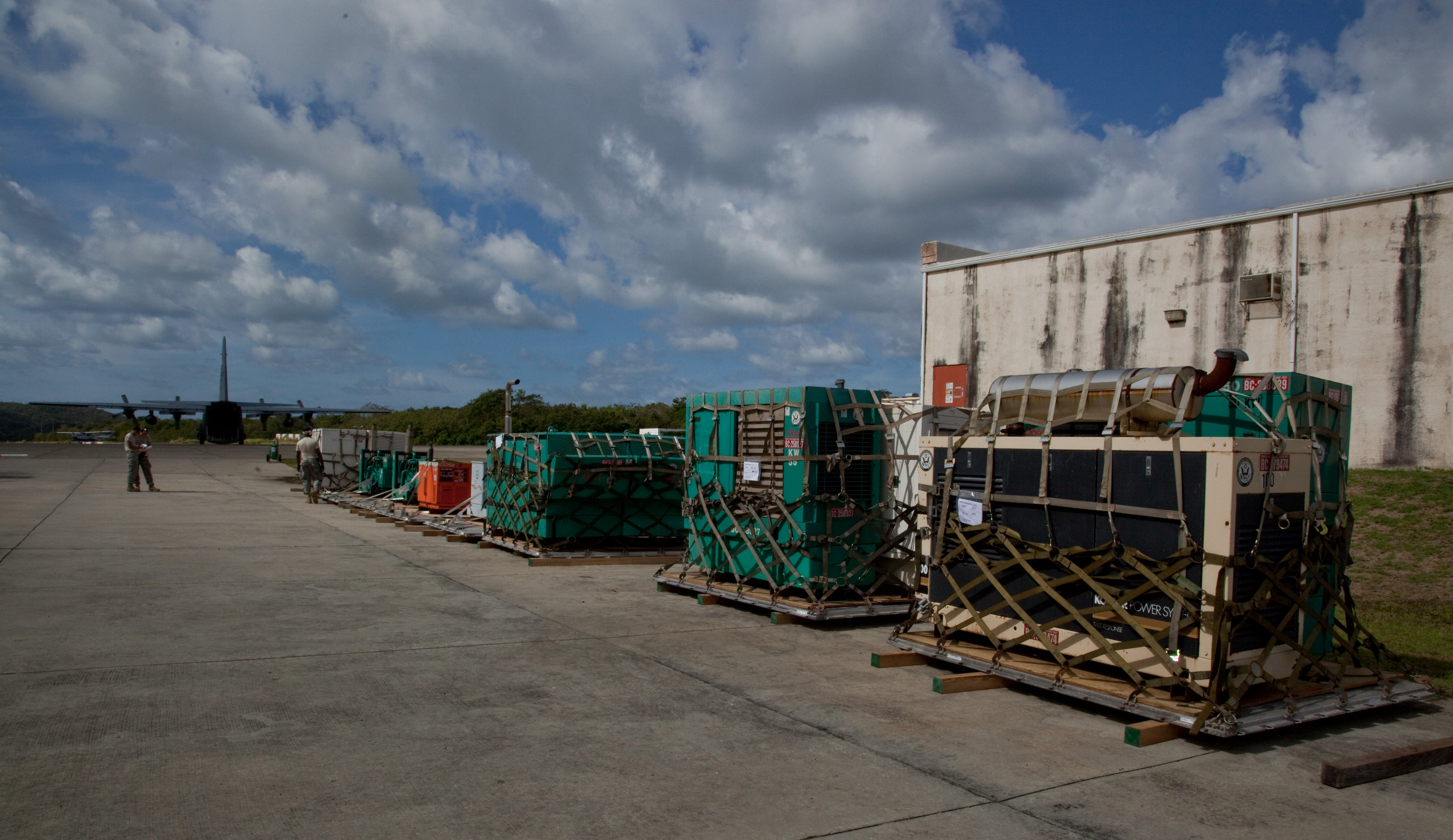 Ceiba, PR, March 26, 2009 -- The Federal Emergency Management Agency (FEMA) donated thirty eight (38) standby power generators to the US Virgin Islands that will shore up the territory's emergency shelters and provide back-up electrical power to other areas critical to the infrastructure of the islands in the event of a disaster. This concerted effort by VITEMA's State Director Mark Walters and FEMA Caribbean Area Director Alejandro De La Campa, and through an agreement between the VI government and the U.S. Department of Defense, the generators arrived by C-130 military aircraft from Puerto Rico and through a local multi-agency effort, were transported to a storage facility in the Virgin Islands. Ashley Andujar/FEMA